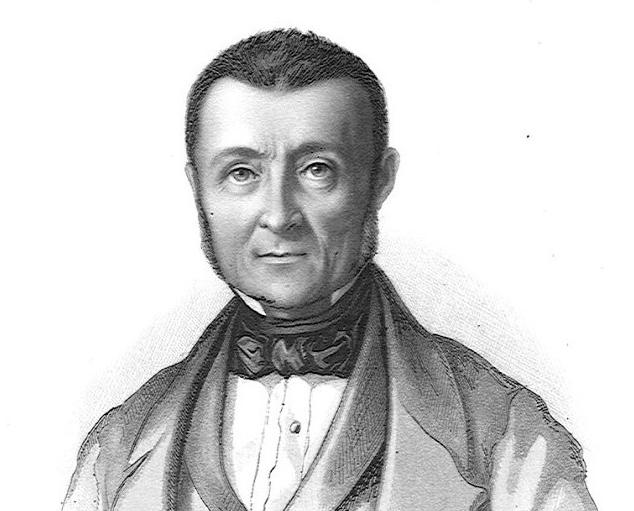 Engraving, portrait of the Baron du Potet (1796-1881)